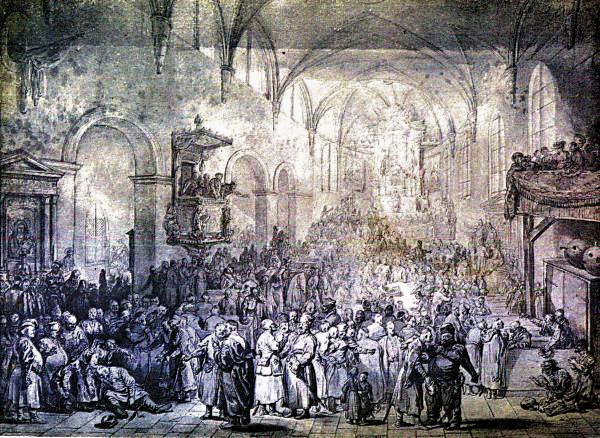 A depiction of a sejmik or "noble diet" – a historical local parliament in Poland – held in a church. (See Michał Janocha (2005). "The Iconography of the Holy Mass in Polish Art (12th–18th Centuries)" (PDF). Warszawskie Studia Teologiczne [Warsaw Theological Studies] XVIII: 51–74 at 62, item 24.)